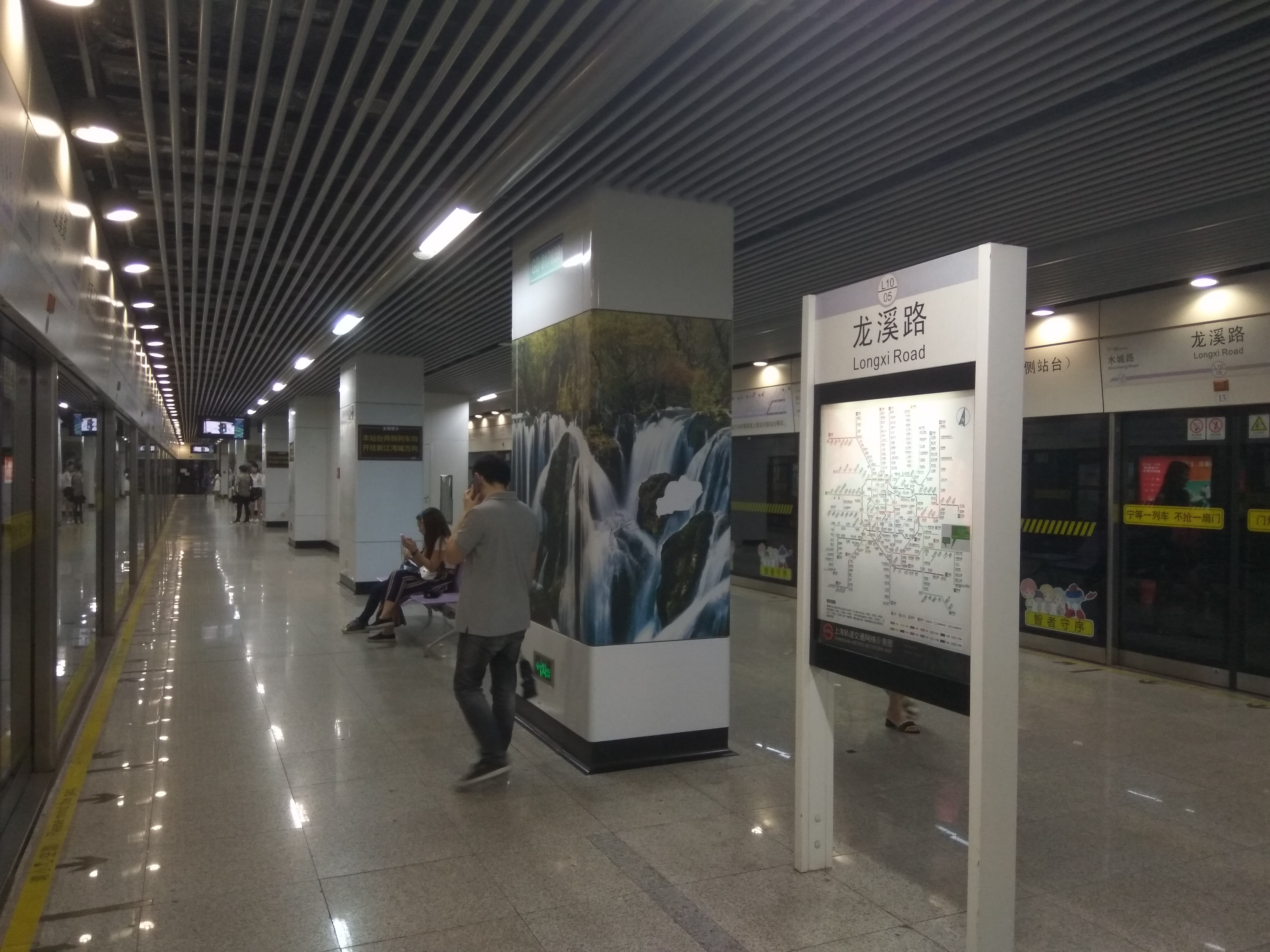 201706 Eastbound Platform at Longxi Road Station, divided to Platform A and B.